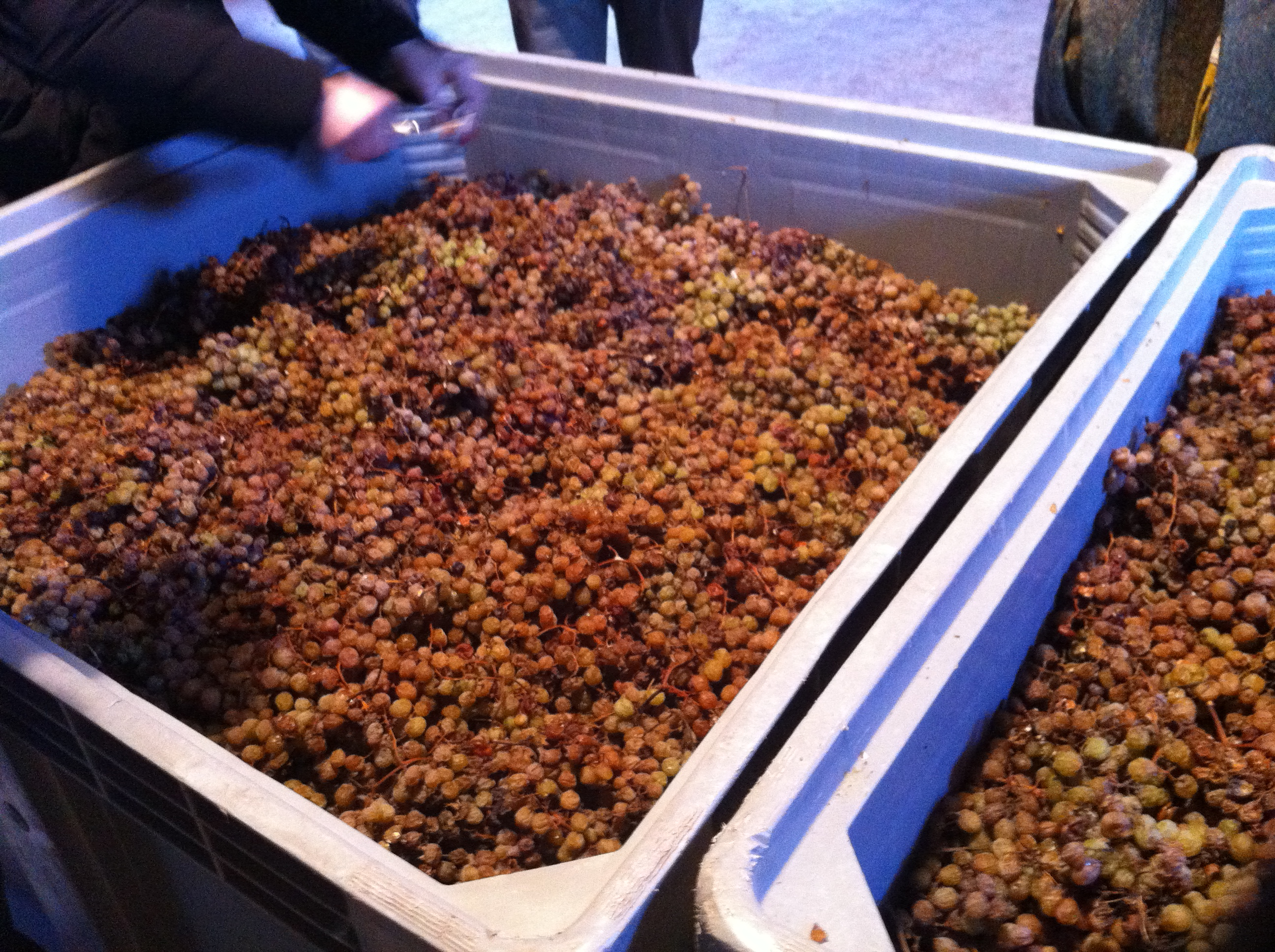 From author "Nosiola grapes after drying. They took us to a local vineyard to see them. The grapes have microorganisms that the biologists would like to study. Vino Santo only comes from 7 vineyards in Trentino. It's very windy in the valley and the wind dries the grapes in their granaries. Botrytis cinerea grows on the grapes as they dry and helps the flavour of the wine."